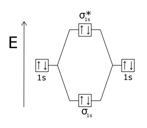 He2 antibonding orbital